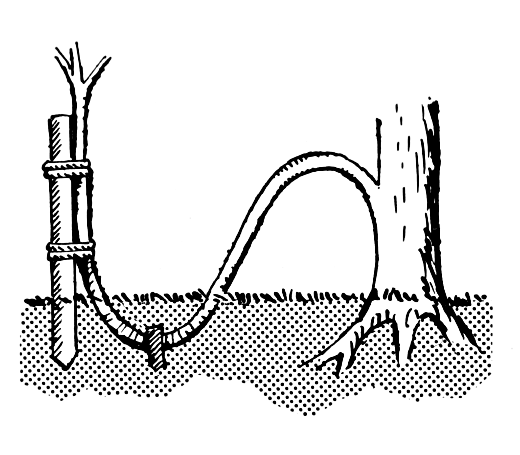 Line art drawing of ground layering.